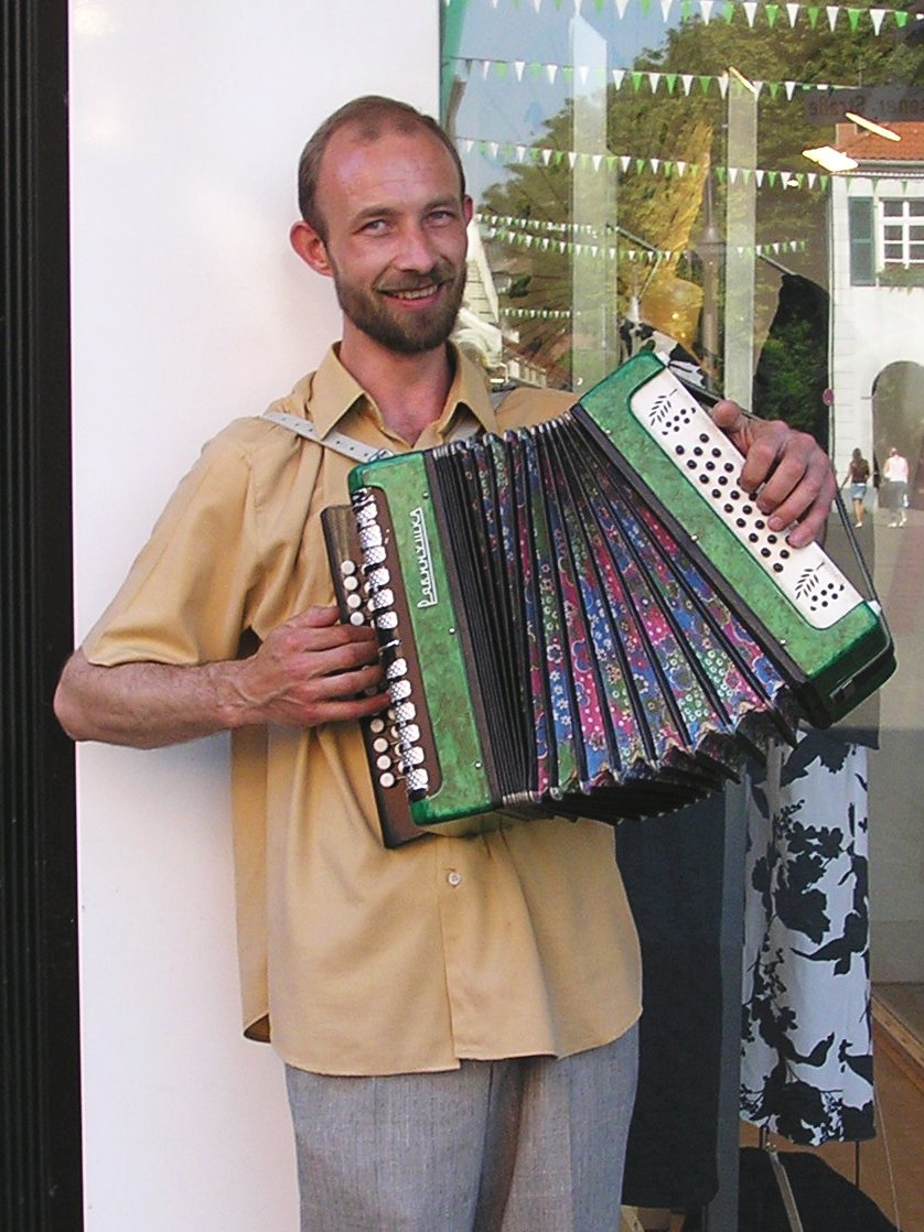 Busking Accordionist in Dorsten. Pictured accordion is the Russian instrument called a Garmon'.